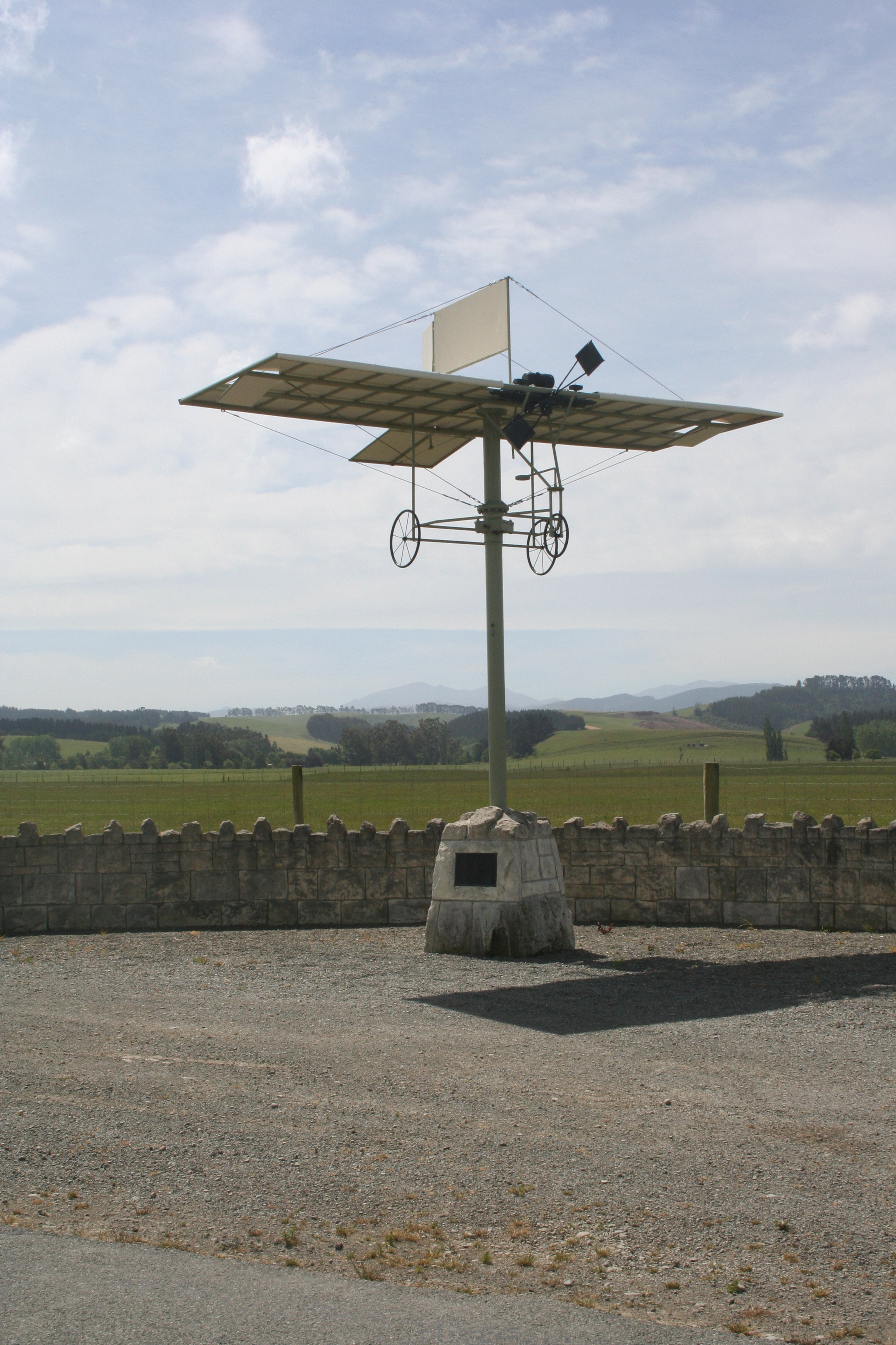 Richard Pearse appears to have successfully flown and landed a powered heavier-than-air machine on 31 March 1903, some nine months before the legendary first controlled, powered and sustained heavier-than-air human flight of the Wright Brothers, on December 17, 1903. The Plaque at the Base of the Monument Reads: Richard William Pearse 1877 - 1953 New Zealand's Pioneer Aviator This monument commemorates the first powered flight to be made by a British citizen in a heavier than air machine. Most evidence indicates this flight took place on 31st March 1903 and ended by crashing on this site.